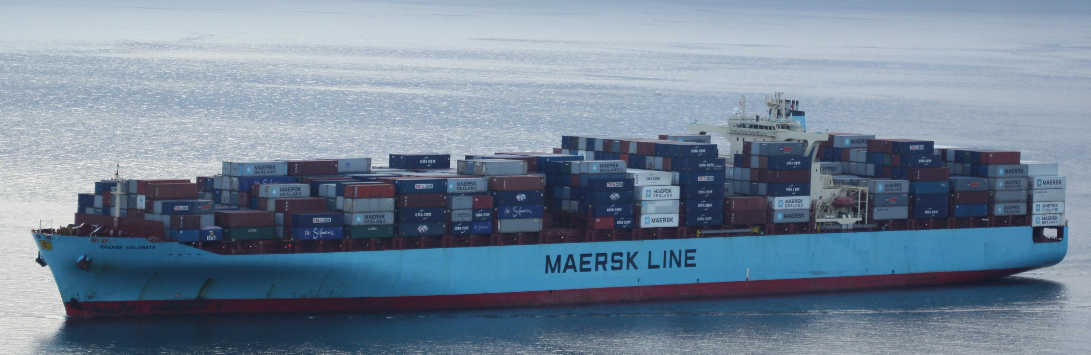 Photograph of the MAERSK KALAMATA, a container ship of the Maersk Line. The marking on the ship reads "Maersk Line" in large letters, and "Maersk Kalamata" near the bow. IMO Number: 9244946 MMSI Number: 237866000 Callsign: SYSJ Length: 304 m Beam: 40 m